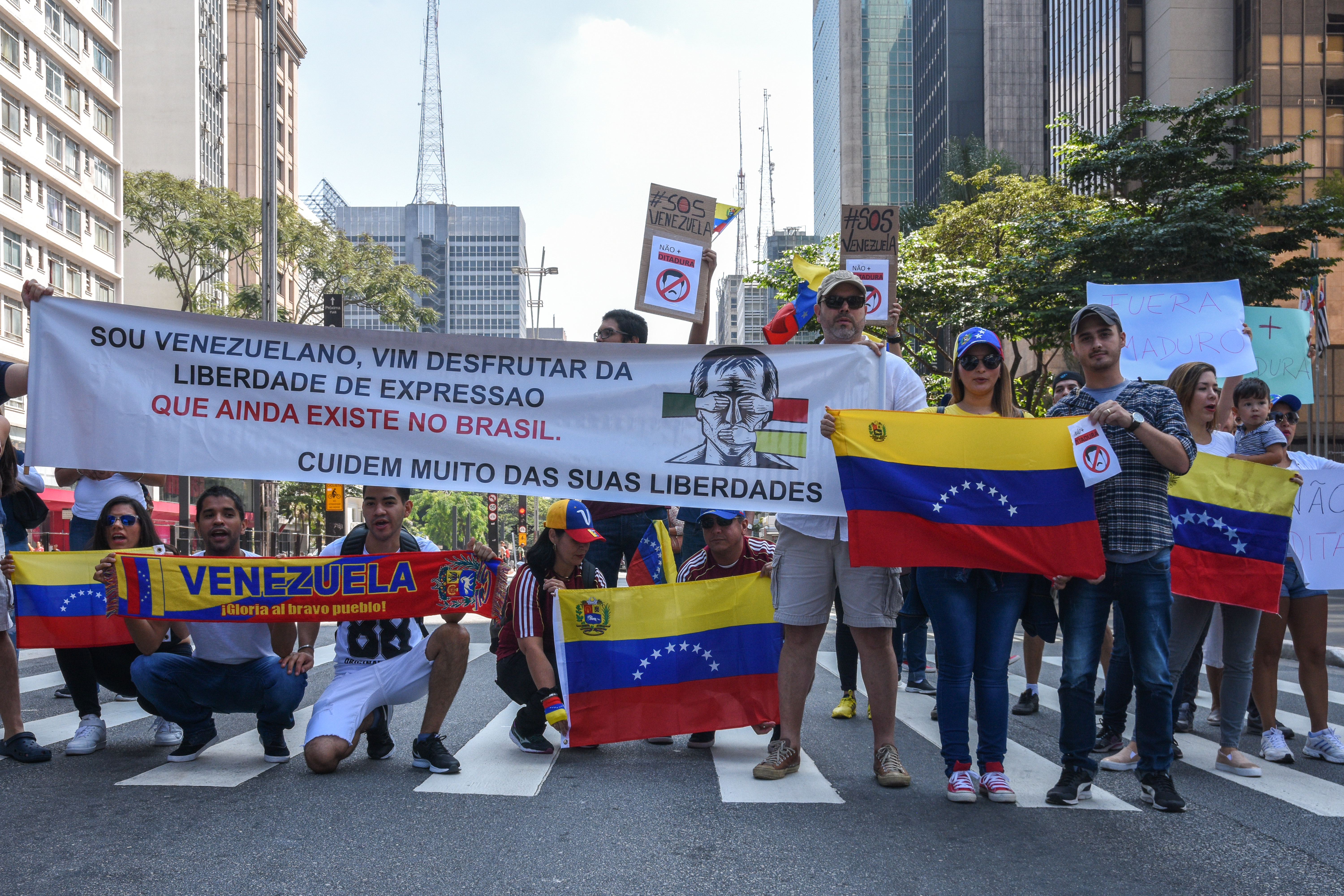 Protests opposing Bolivarian Revolution in São Paulo, Brazil